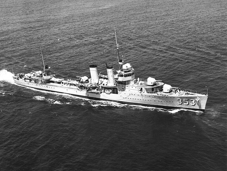 The U.S. Navy destroyer USS Dale (DD-353) underway on 28 April 1938.